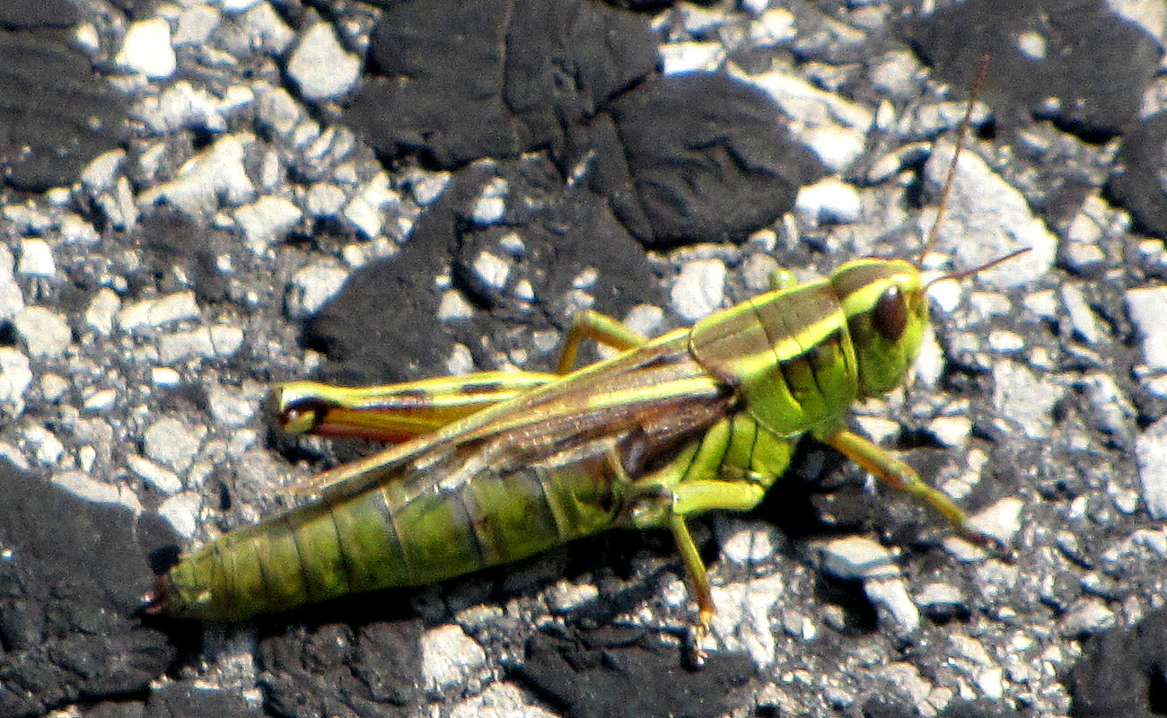 Two-striped Grasshopper (Melanoplus bivittatus bivittatus), Mer Bleue Conservation Area, Ottawa, Ontario